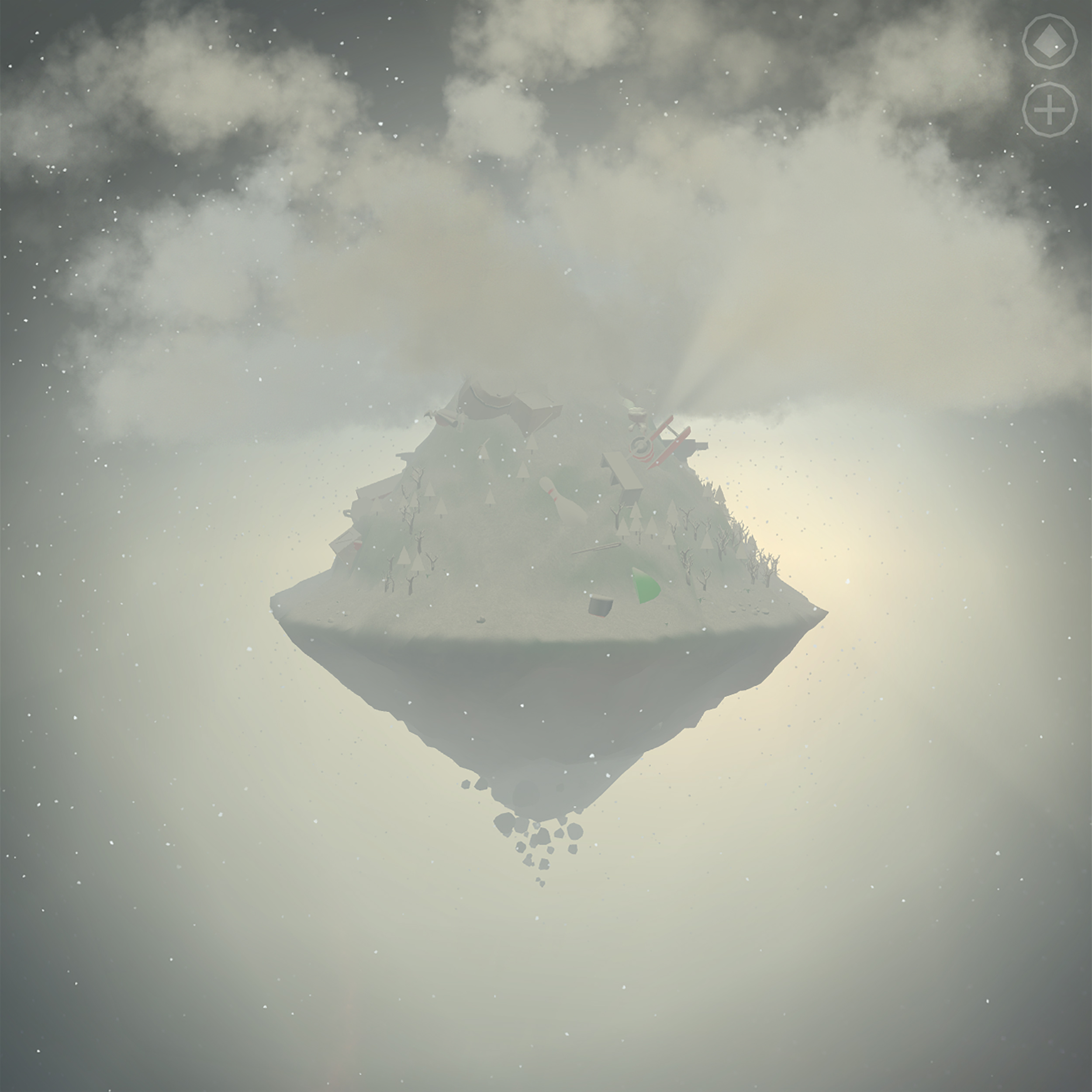 Mountain video game screenshot